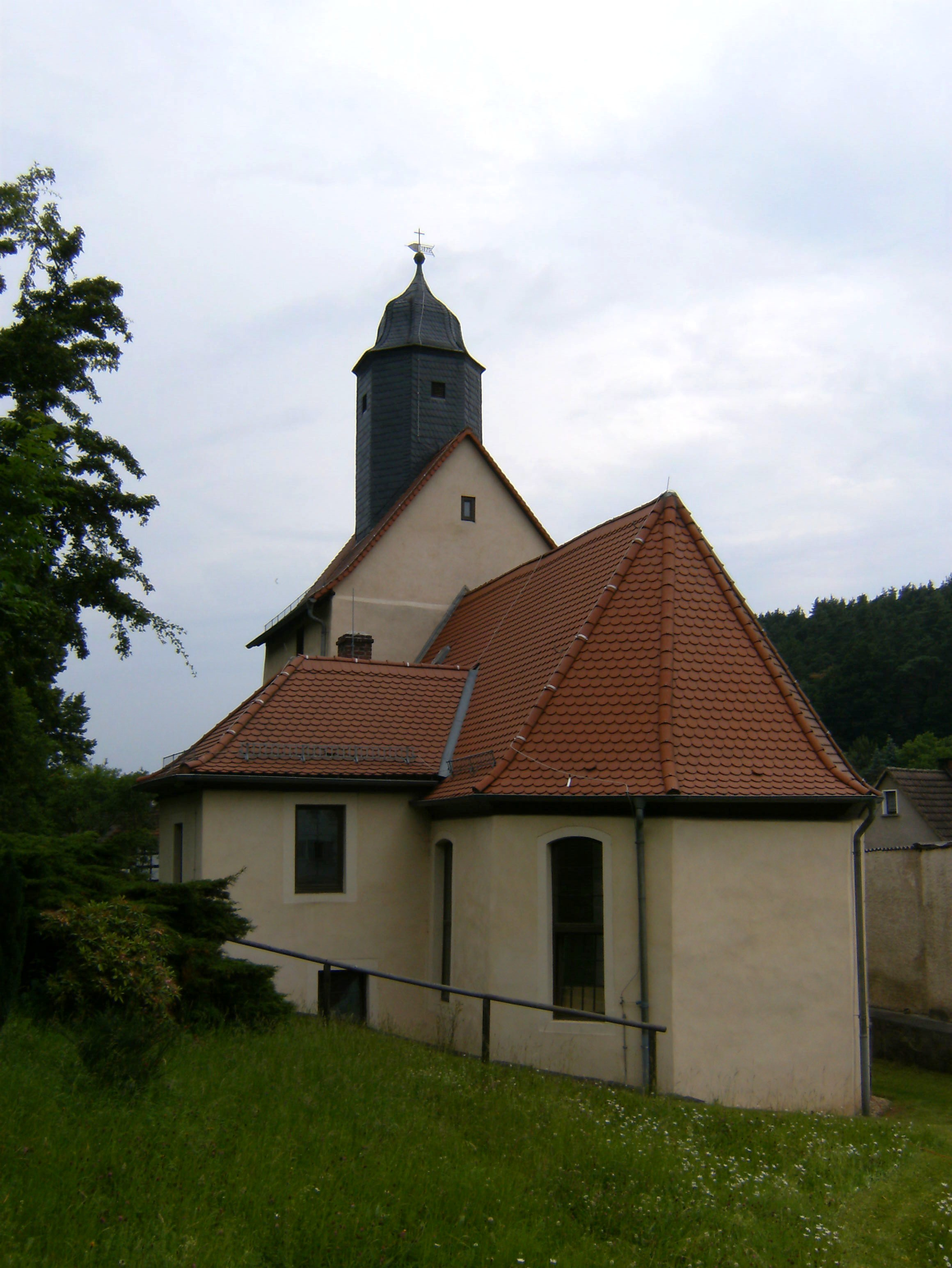 Ancient Hartmannsdorf village church.